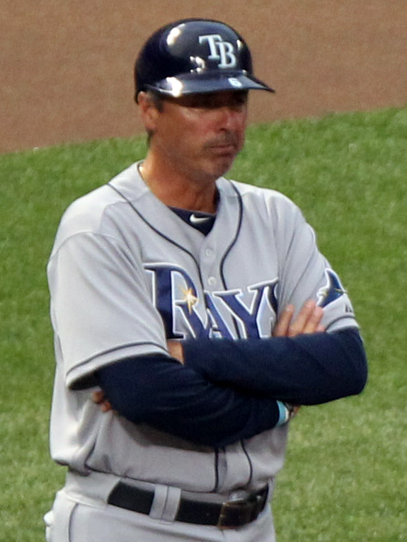 Tampa Bay Rays 3rd base coach Tom Foley, 2011.